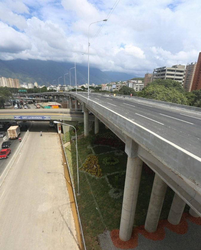 Valle Coche Highway in 2015 Caracas Venezuela 3